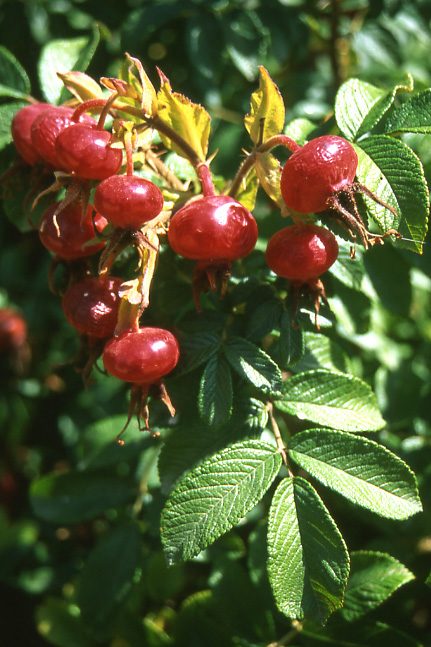 This is a scan from a 35mm transparency which I took in August 2005 at the "Jardin des Olfacties" in Coex, France. It shows the hips and foliage of Rosa rugosa. This scan is in the Public Domain (however, I retain ownership and copyright of the original transparency and any higher-resolution scans derived from it). If this image is used outside Wikipedia a photographer's credit (Simon Garbutt) would be much appreciated! SiGarb 18:25, 11 December 2005 (UTC)